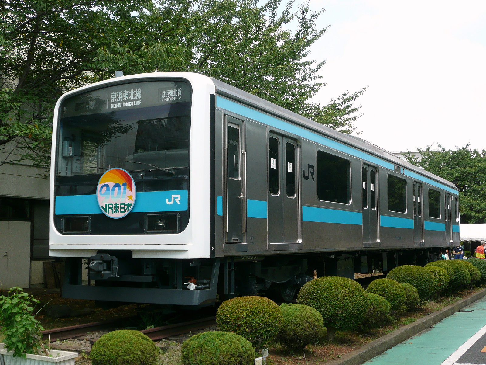 JR East 901 series (Set A) KuHa 901-1 (later KuHa 209-901) preserved at Tokyo General Rolling Stock Center